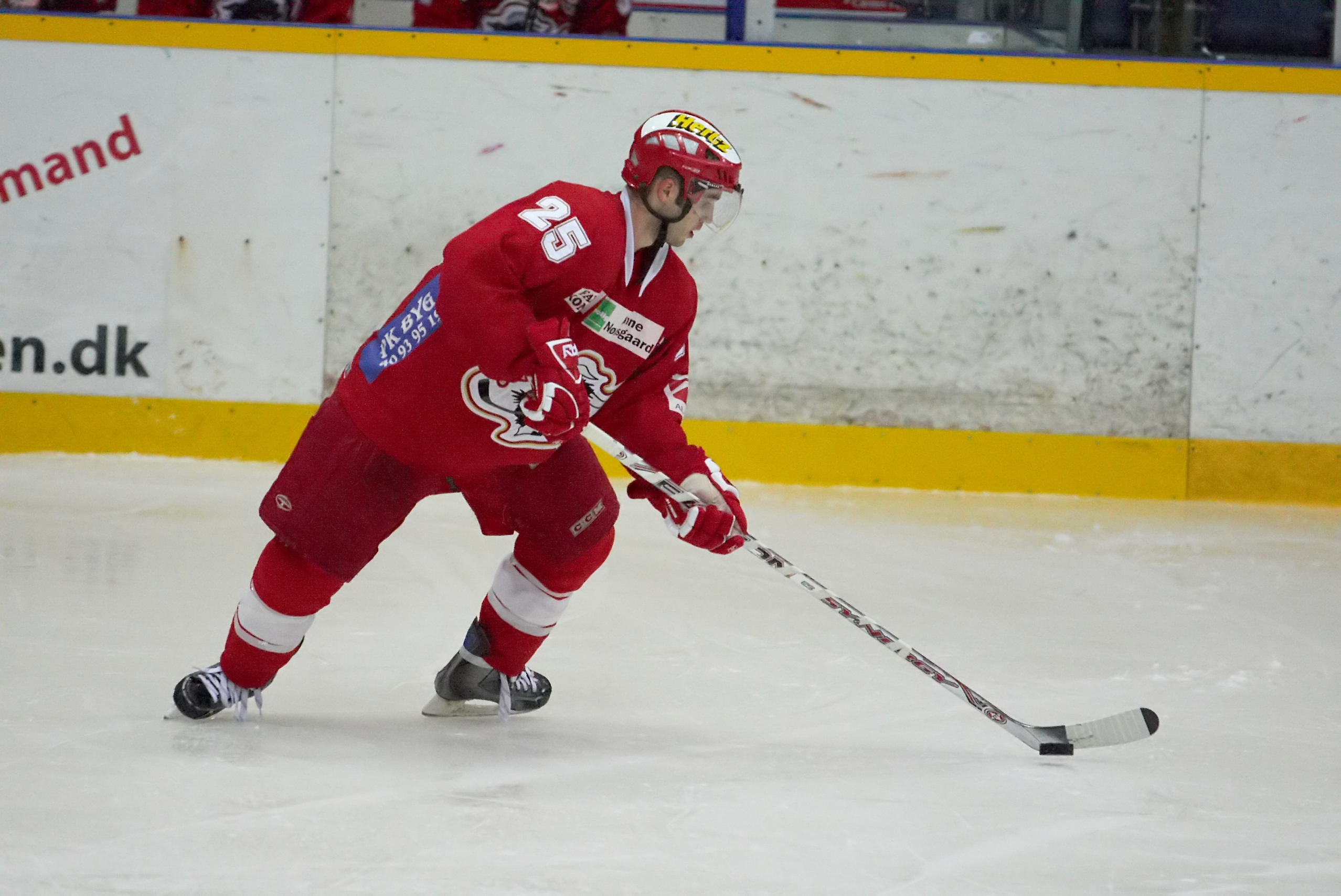 Mr. Derek Eastman in action